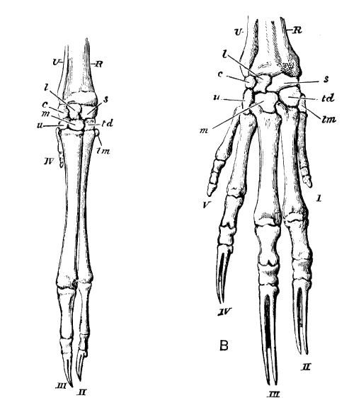 Fig. 85.—Bones of manus. A, of Choeropus castanotis. × 2. B, of Bandicoot (Perameles). × 1½. c, Cuneiform; l, lunar; m, magnum; R, radius; s, scaphoid; td, trapezoid; tm, trapezium; u, unciform; U, ulna; I-V, digits. (From Flower's Osteology.) Choeropus castanotis is now treated as a synonym of †Chaeropus ecaudatus.